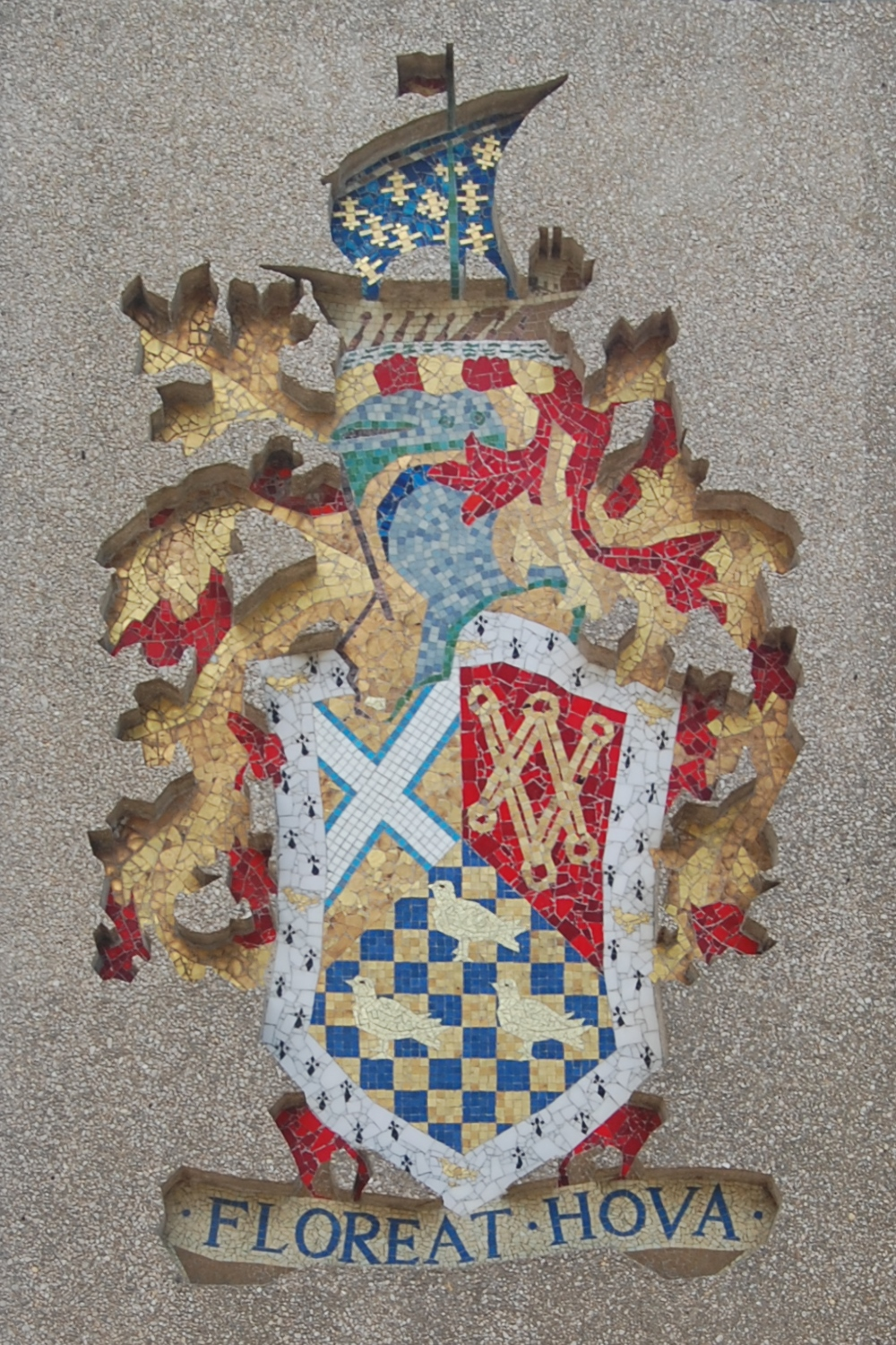 The coat of arms of the defunct Borough of Hove, depicted on the Norton Road (west-facing) façade of Hove Town Hall.